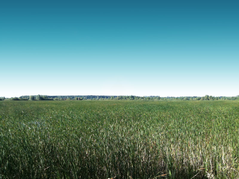 Bebruliškė (Kazlų Rūda municipality) reservoirs